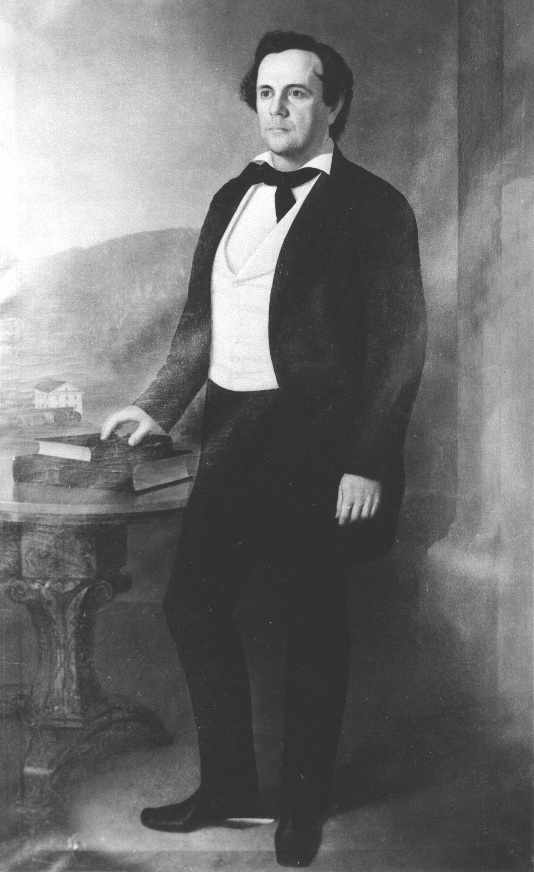 United States Congressman Nathaniel Green Taylor (1819–1887)